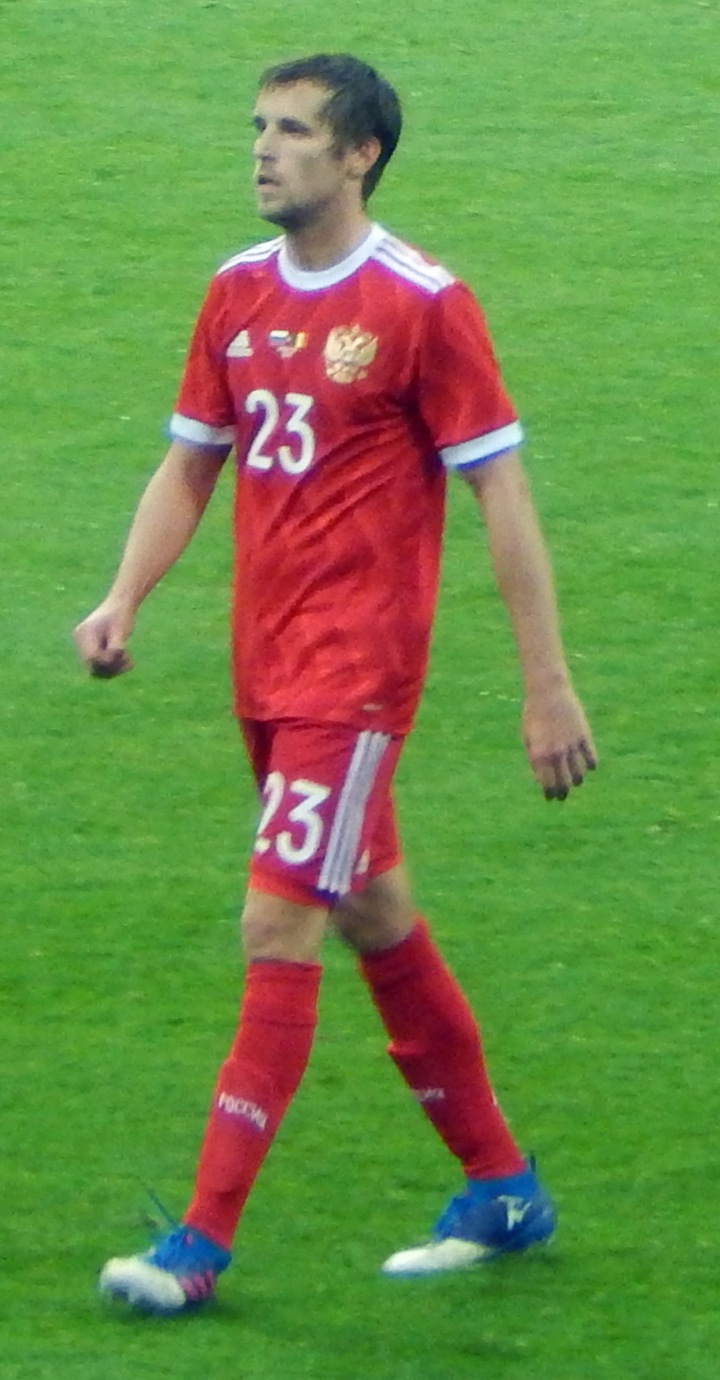 This photo was taken on March 28, 2017 during the exhibition game between Russia and Belgium. That game was held in Adler (City of Sochi) at the Fisht stadium.